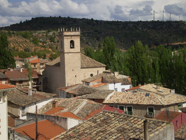 Panoramic view of Trillo, Guadalajara (Spain)